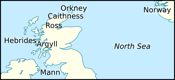 Map showing the Argyll, Caithness, the Hebrides, Mann, Norway and Ross. I created this map for the English Wikipedia article Ragnall mac Somairle.